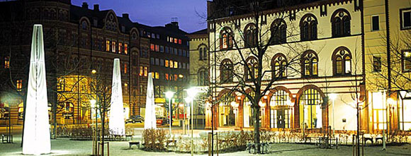 Landskrona public library